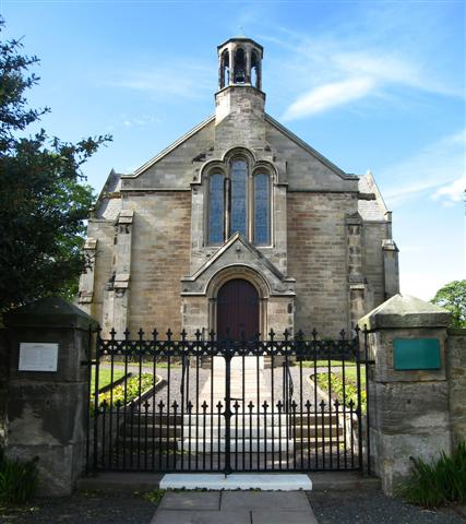 Gladsmuir Parish Church. The present Gladsmuir parish church. A Romanesque cruciform church with a short 2-bay nave built in 1839, rebuilt after being gutted by fire in 1886, and improved both externally and internally in 1929.